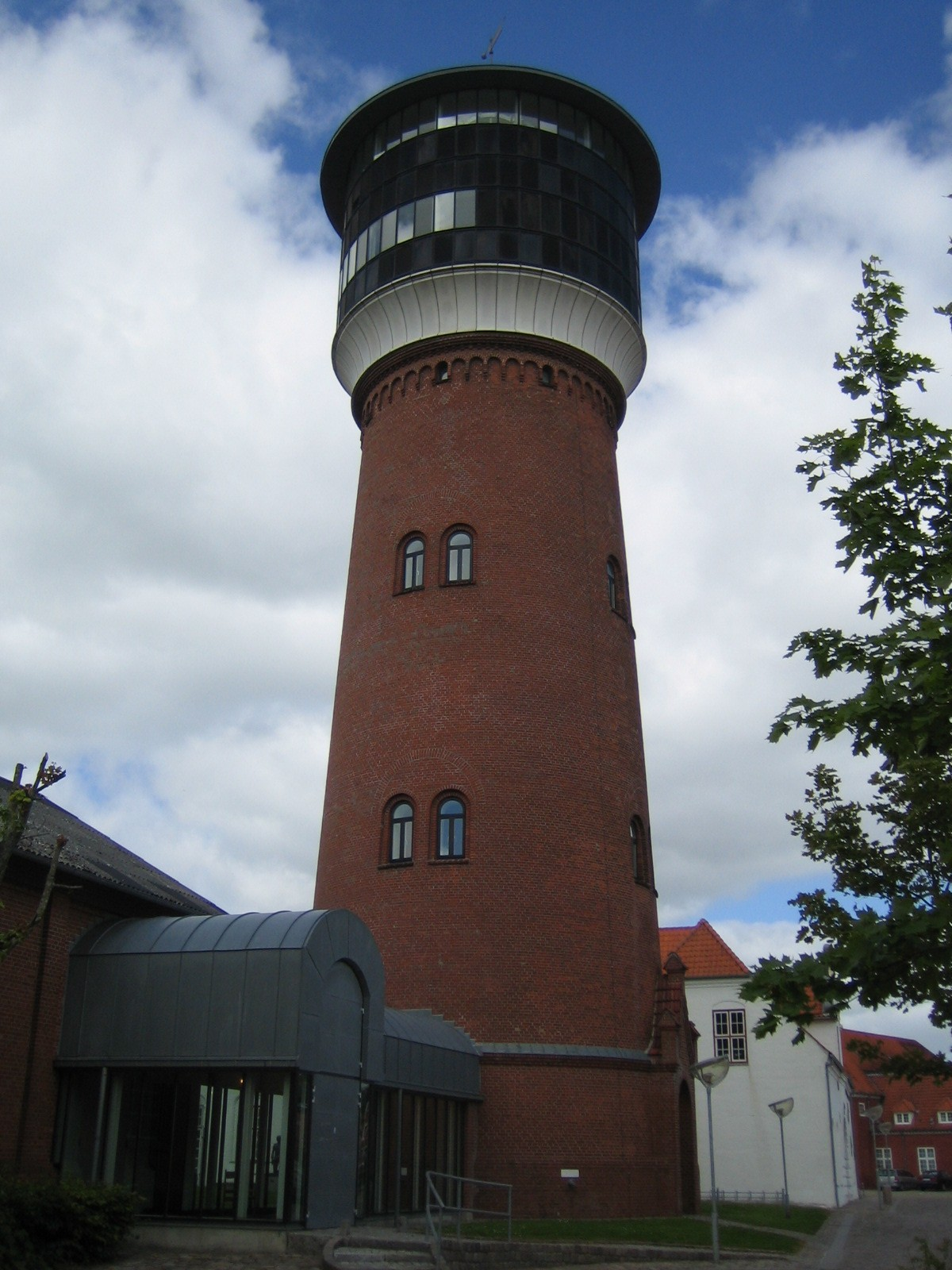 Former water tower in Tønder, Denmark.